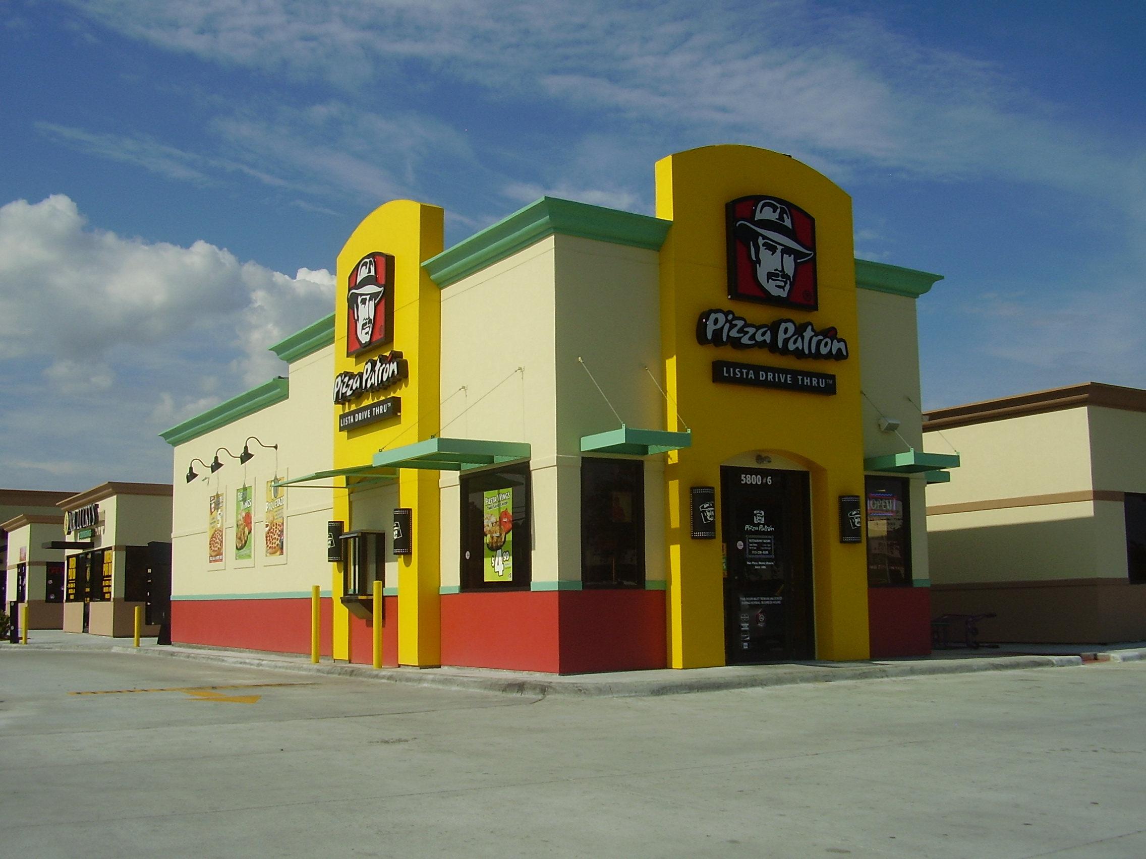 Pizza Patrón store - 5800 Bellaire Blvd. Houston, TX 77081 - Located in front of Bellaire Center